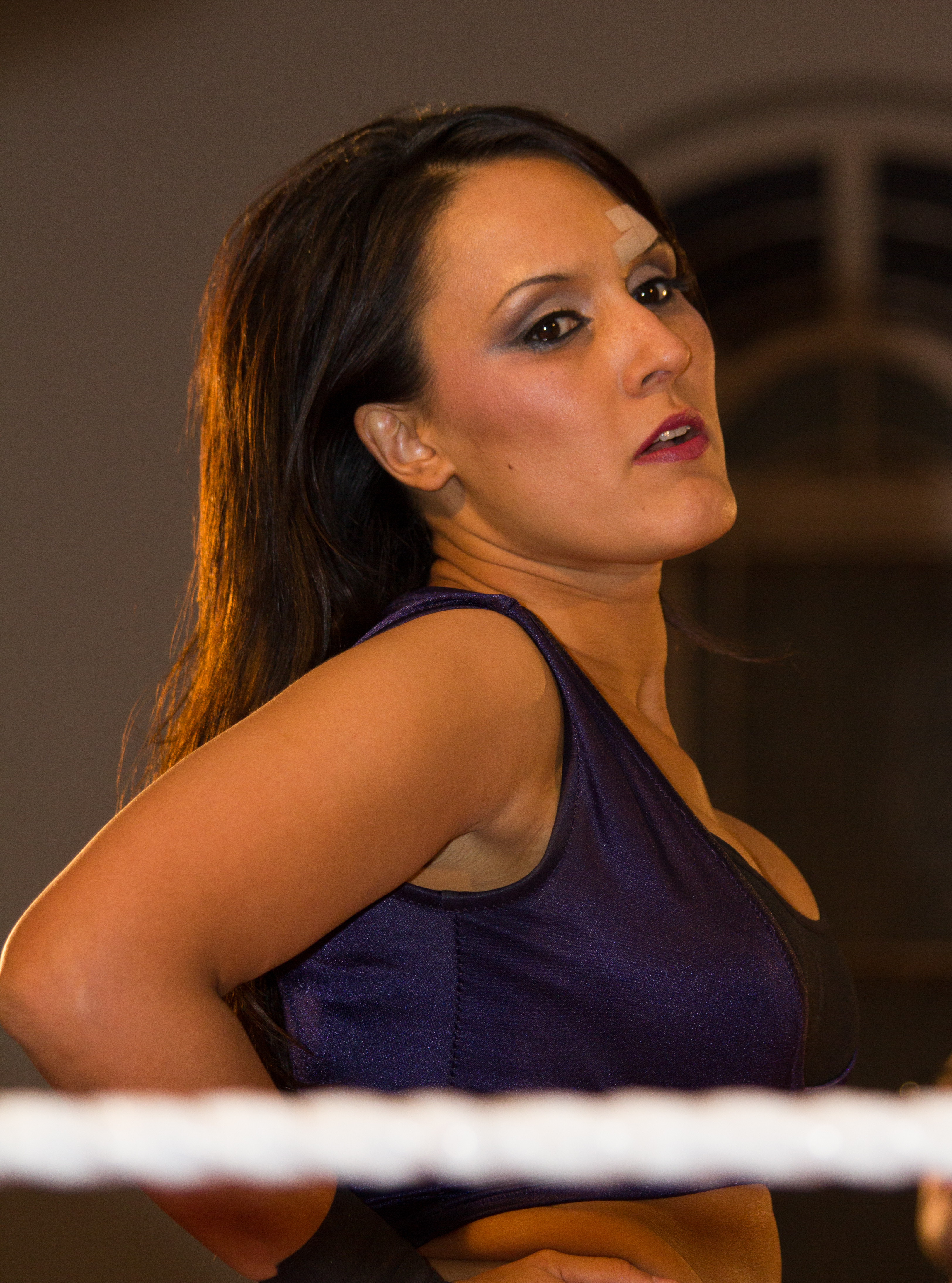 Cheerleader Melissa (real name Melissa Anderson) at a NCW Femme Fatales show in Montreal.